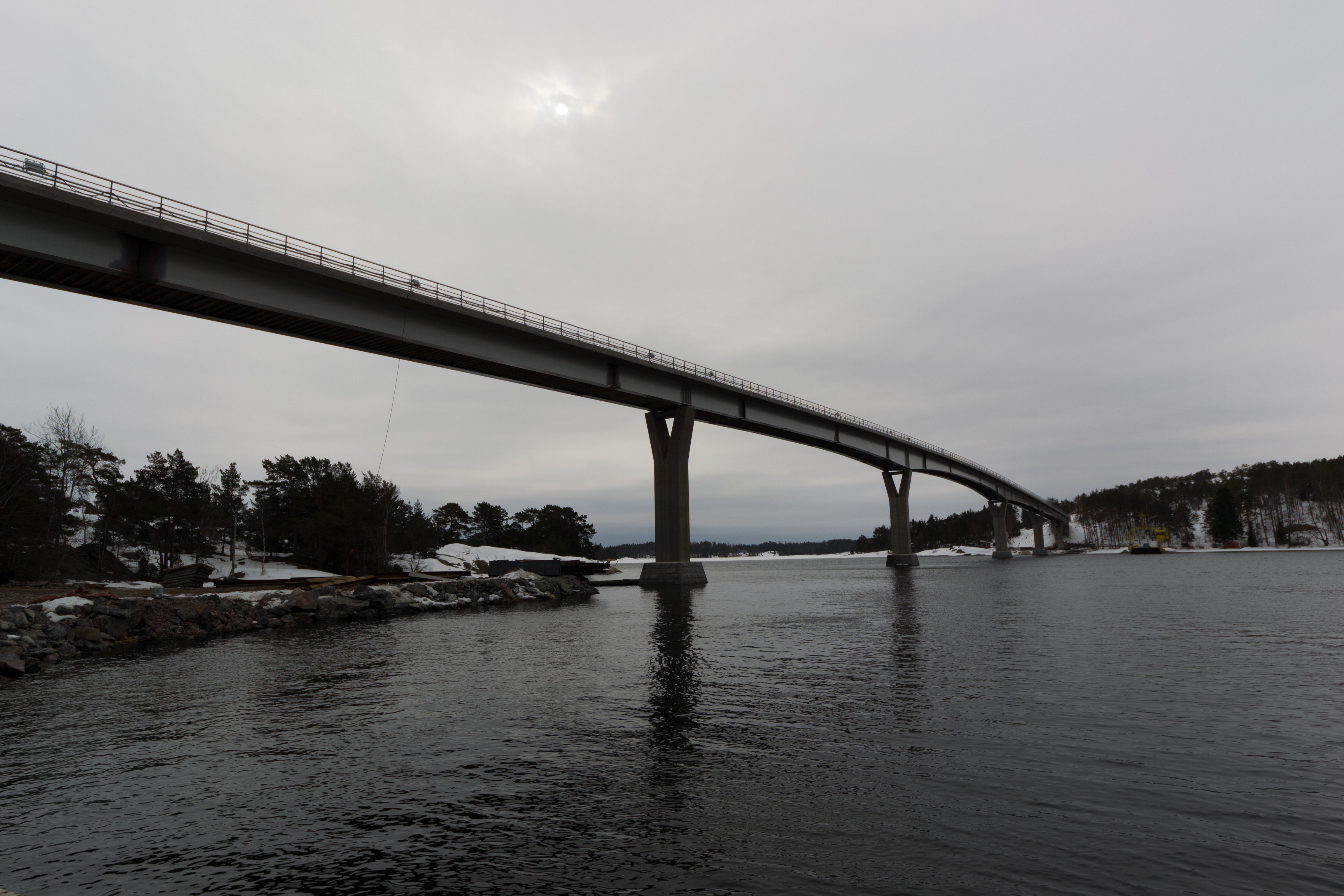 Lövö bridge in Kimitoön, Finland